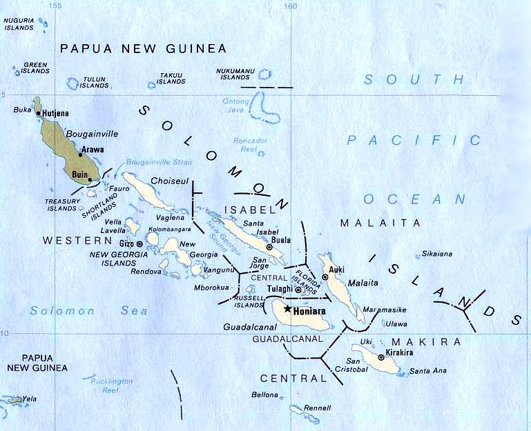 Locator map of the Autonomous Region of Bougainville (shaded brown) — in eastern Papua New Guinea The autonomous region's islands compose the northeastern Solomon Islands Archipelago. Also showing the archipelago's islands in the Solomon Islands (country).